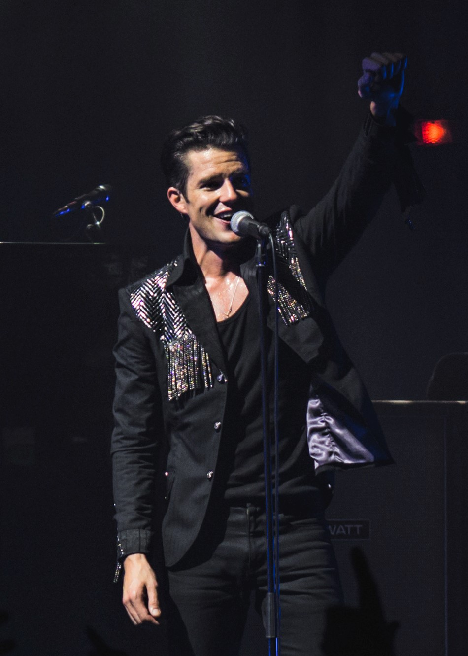 Performance of American rock band The Killers at the Brixton Academy in September 2017.